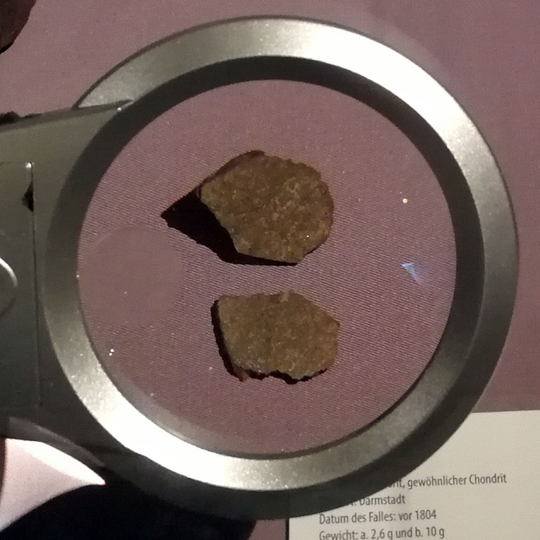 Two Darmstadt mateorite fragments.